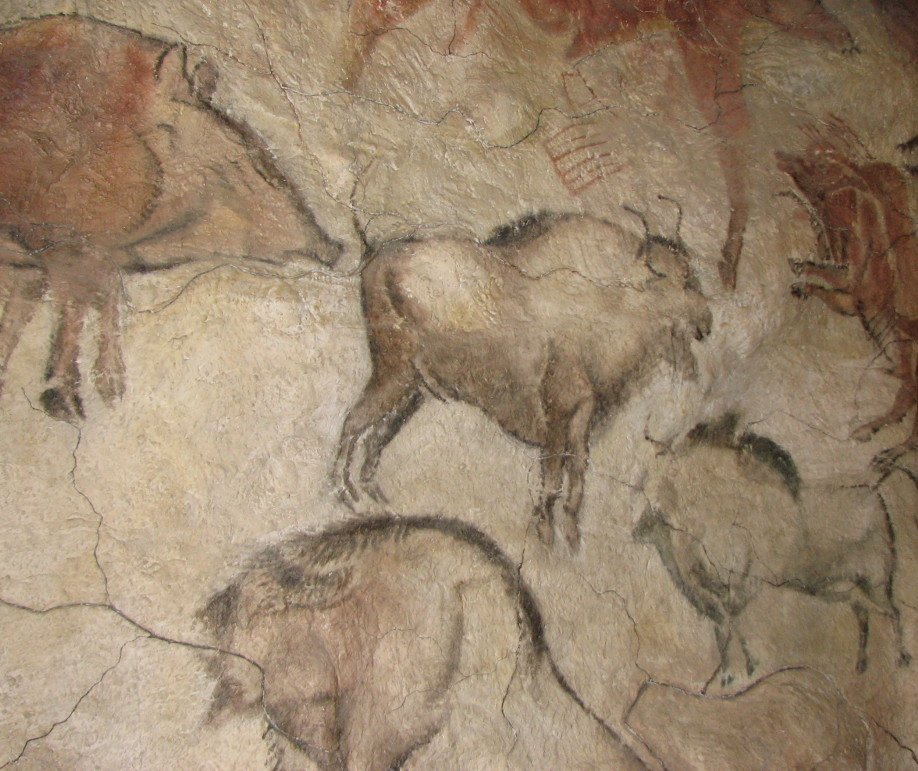 Cave painting from the cave of Altamira in The Anthropos Pavilion of The Moravian Museum, Brno, Czech Republic.